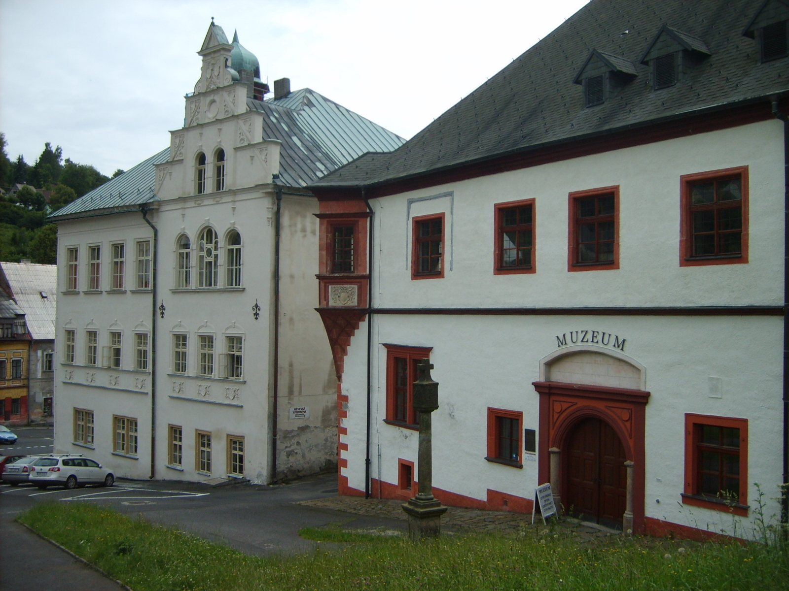 Town hall and museum in upper part of square in Jáchymov. Carlsbad county, CZ.